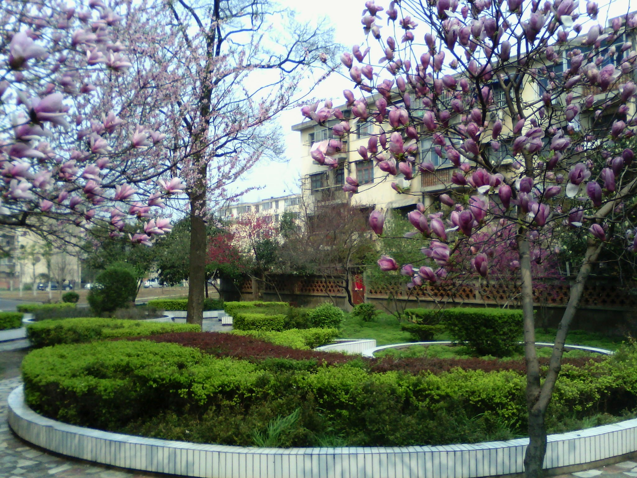 Fuyang Teachers College, Qinghe Campus, also called the East Campus. The east campus is older and generally has more natural scenery than the west campus.